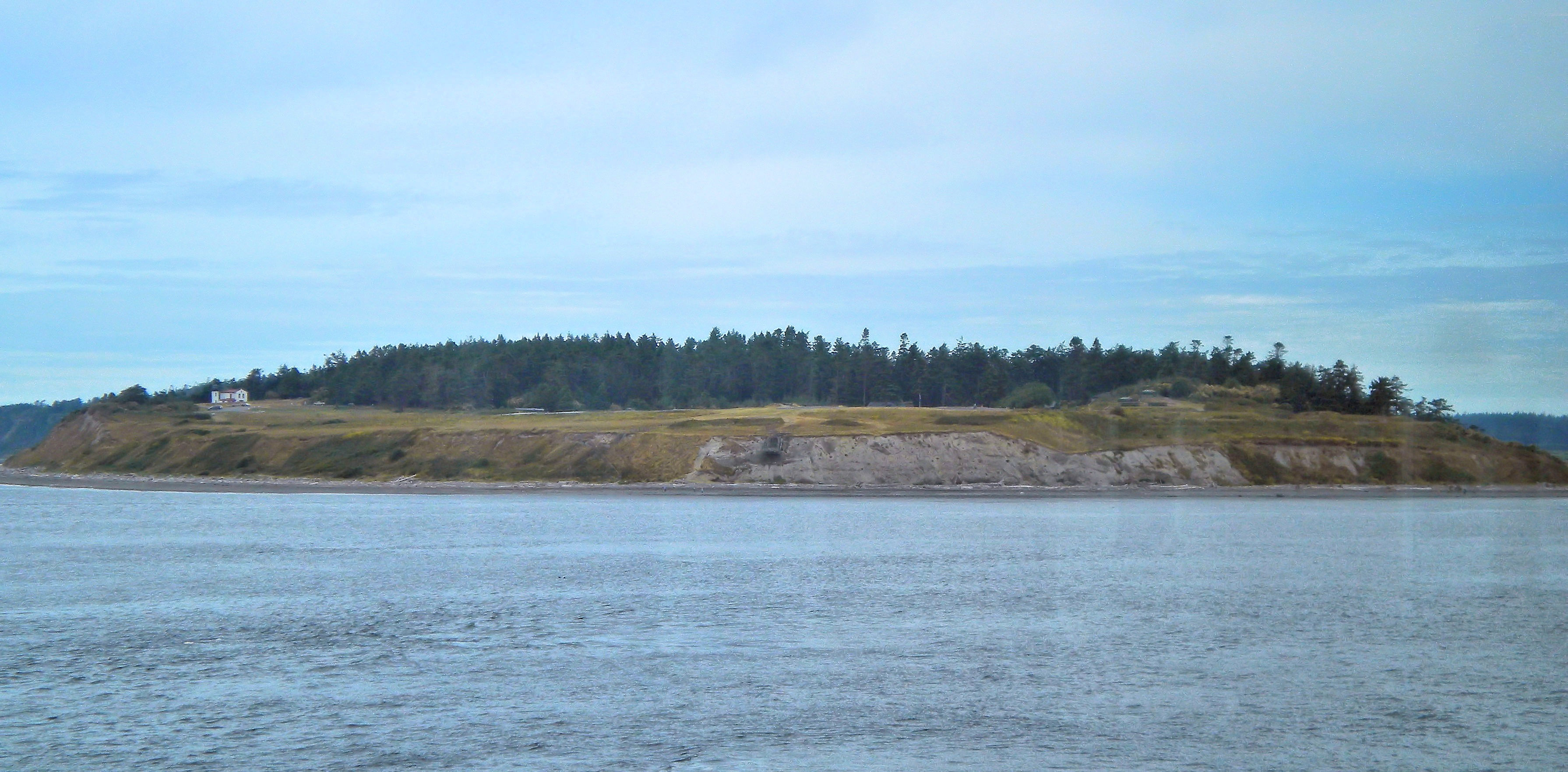 Fort Casey as seen from the ferry Chetzemoka while crossing Puget Sound